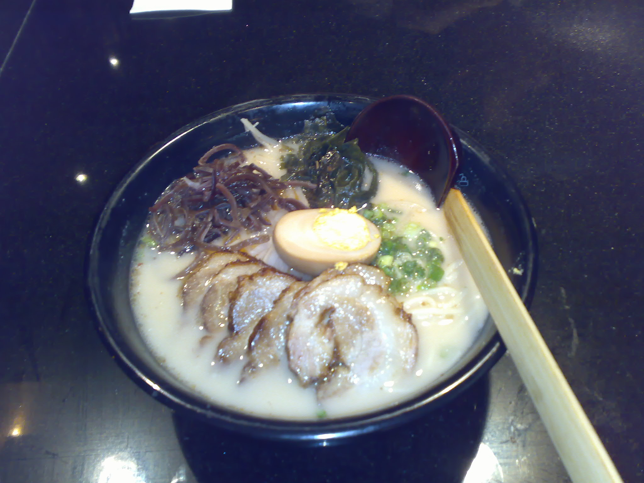 A bowl of char siu ramen at Ajisen Ramen, taken with my Nokia N73 camera phone.